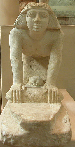 Woman grinding grain. Egyptian servant statuettes. Cairo Egyptian Museum. JE 87818